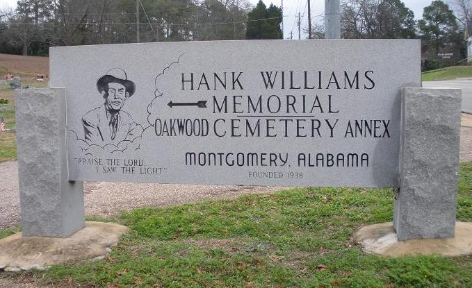 This is a photograph of the entrance to the Hank Williams memorial in the Oakwood Cemetery in Montgomery, AL